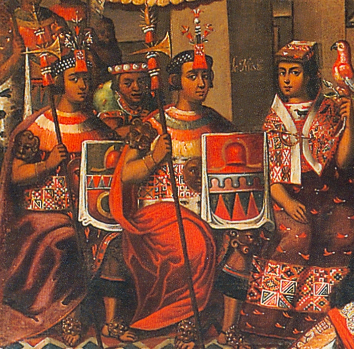 Detail (two incas) of the Marriage of Martin de Loyola to Princess Dona Beatriz and Don Juan Borja to Lorenza (Ana María Lorenza de Loyola y Coya, daughter of Martin and Beatriz).